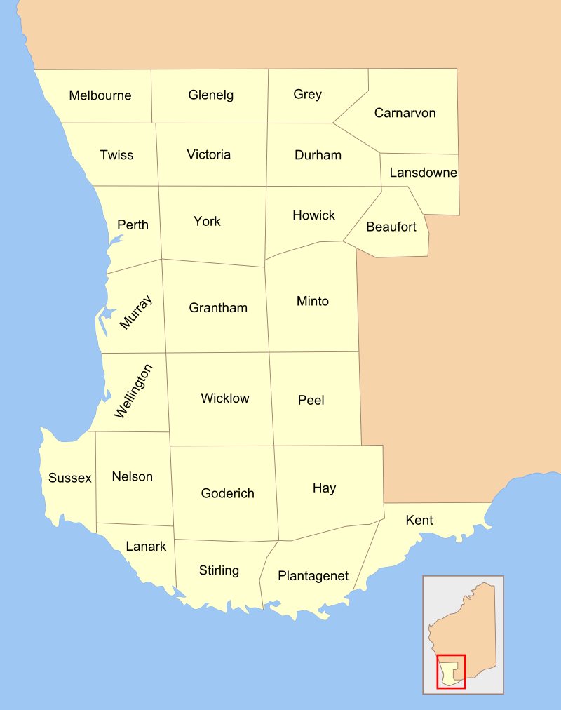 26 Counties of Western Australia (which only covered a small area in the south-west), see 1853 map (they have remained unchanged since then)